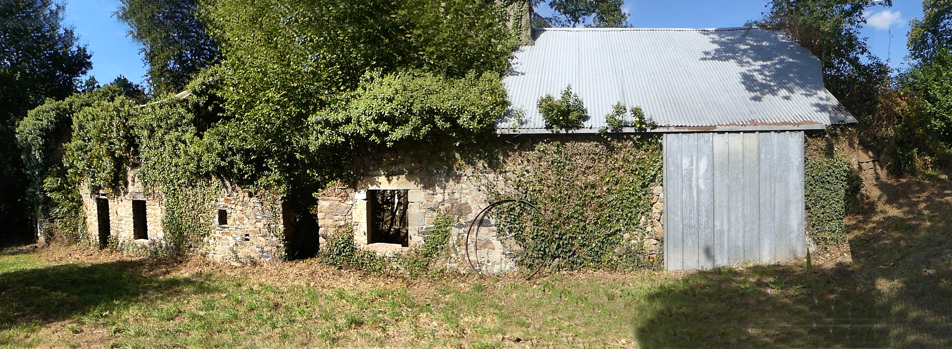 Ancestral house of Michel Saindon